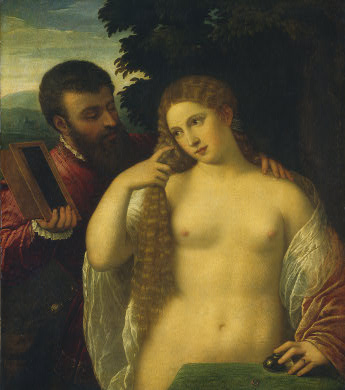 Allegory (Possibly Alfonso d'Este and Laura Dianti) // NG, Wash.